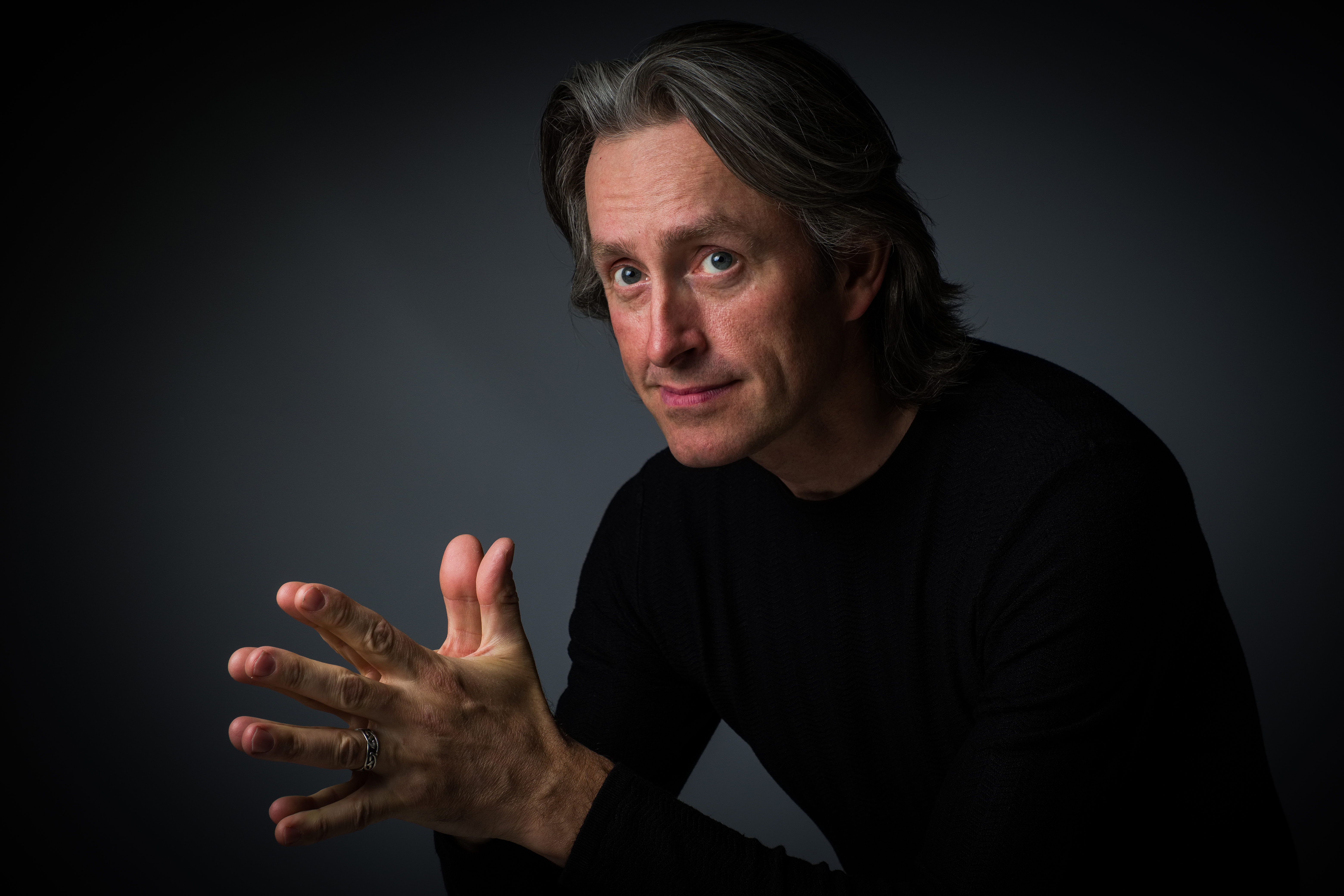 Portrait of Tommy Smith Saxophonist